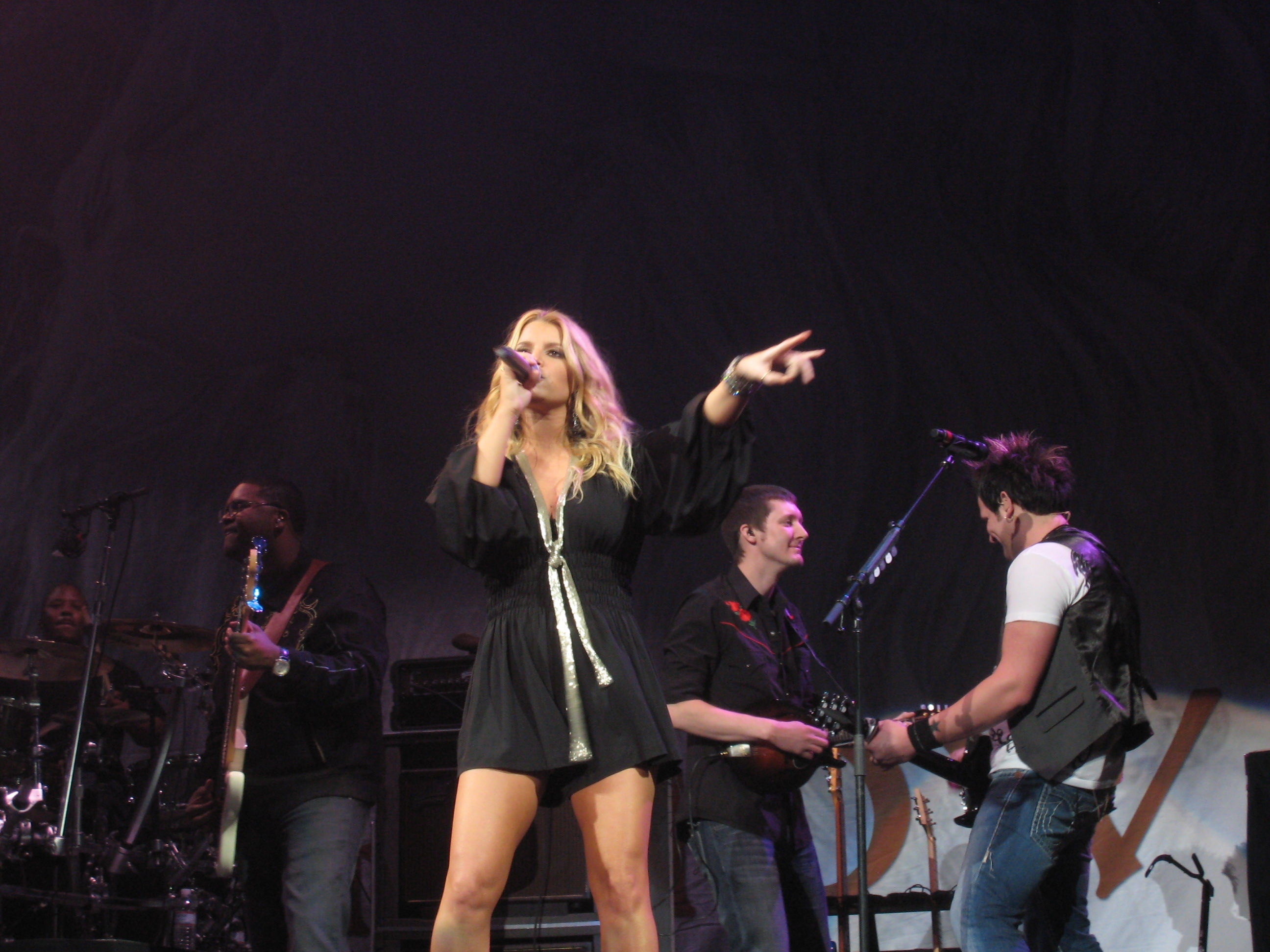 Jessica Simpson with Rascal Flatts at Madison Square Garden.